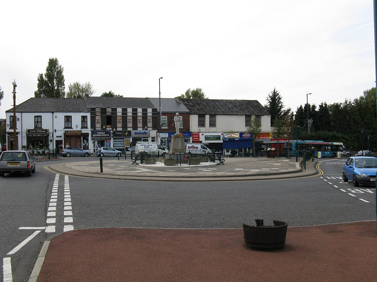 The square at Eston with shops and the war memorial.